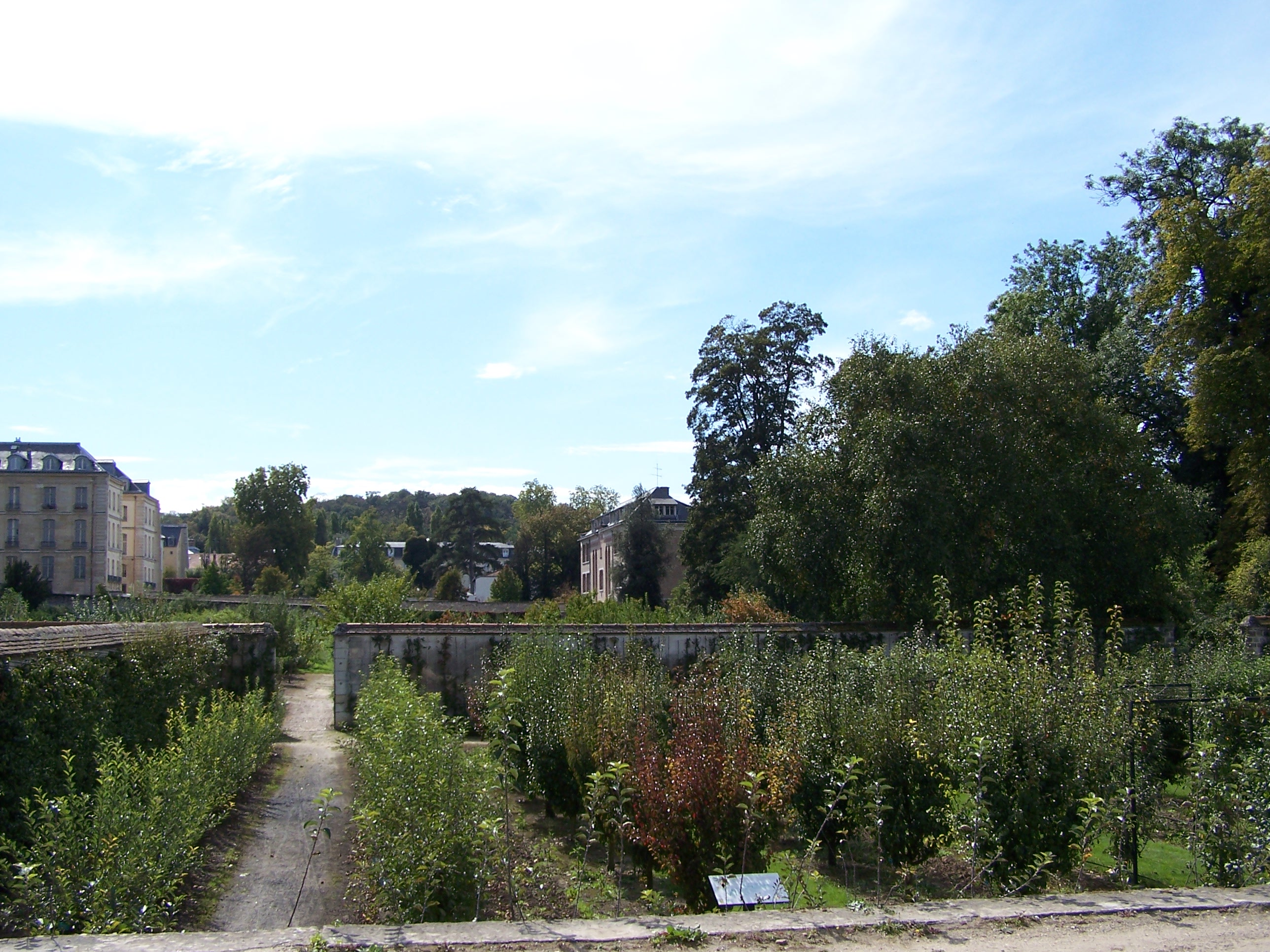 The Potager du Roi in Versailles (Yvelines, France)